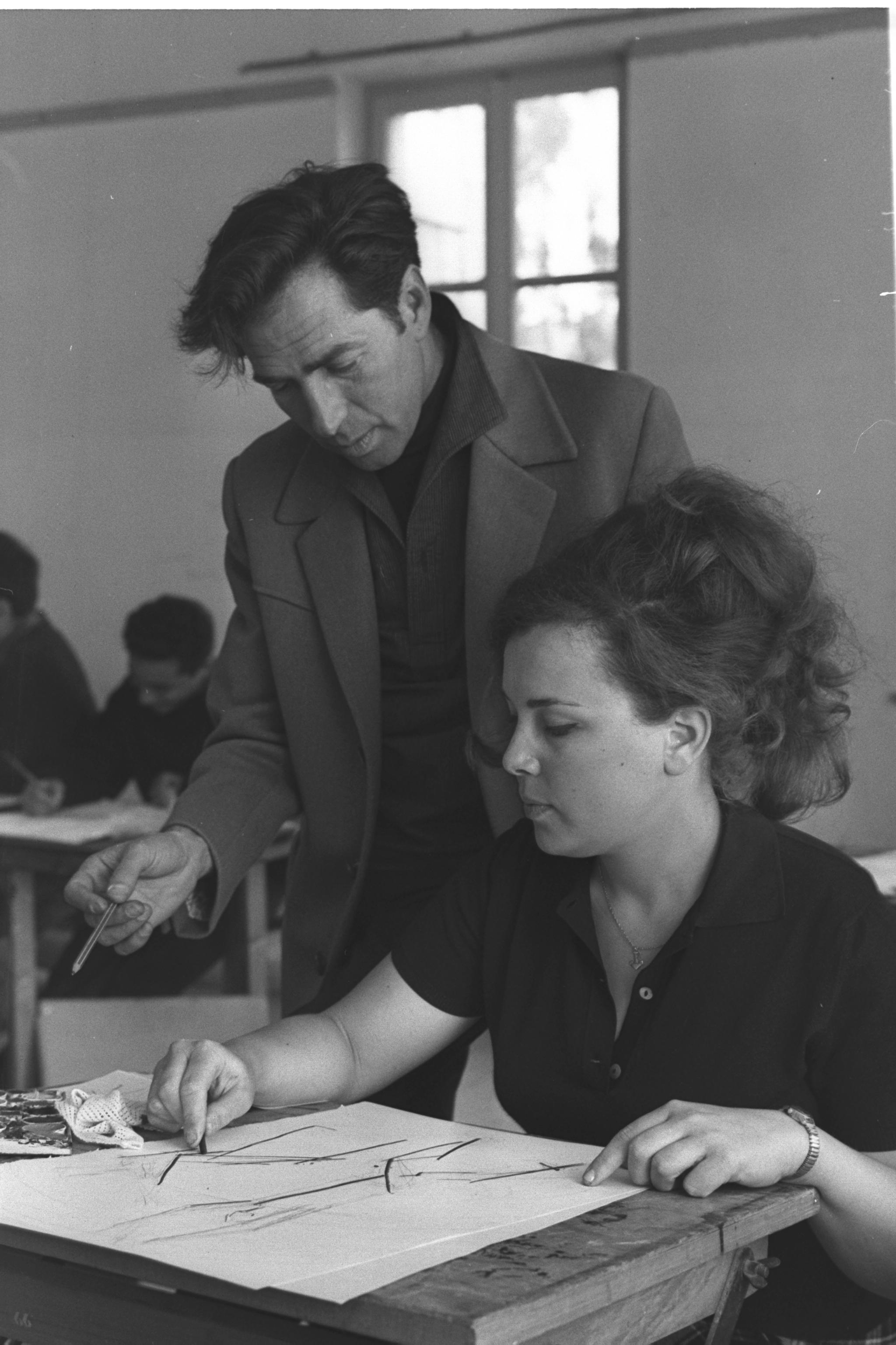 BEZALEL ART SCHOOL TEACHER AND PAINTER YOSSI STERN SUPERVISING THE WORK OF 1ST YEAR STUDENT ELIORA.